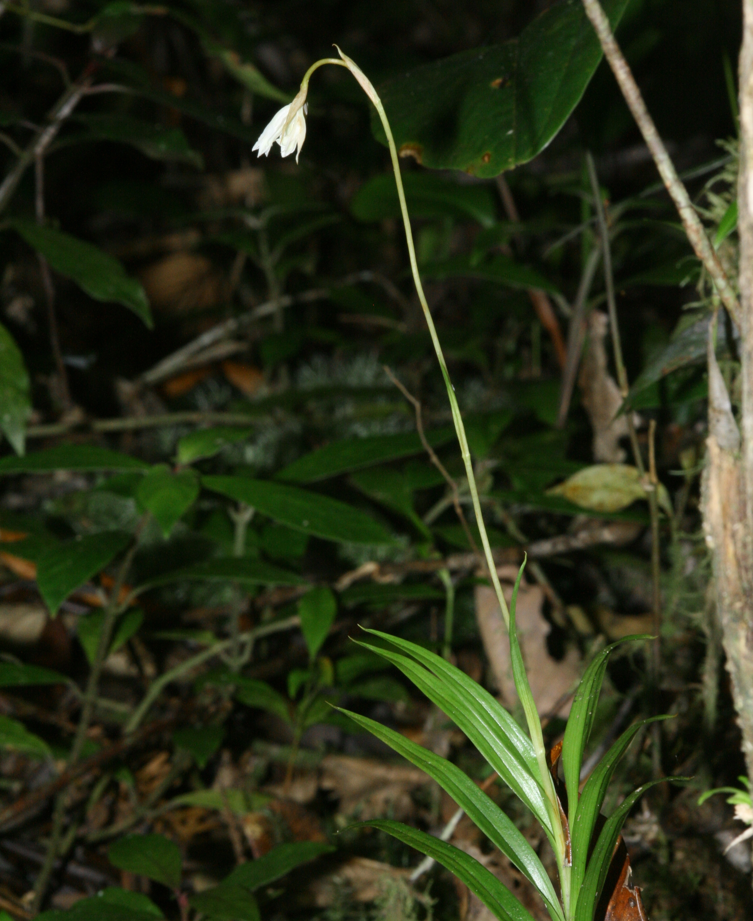 Flowering Burmannia longifolia, montane rainforest, Gunung Kemiri, Sumatera